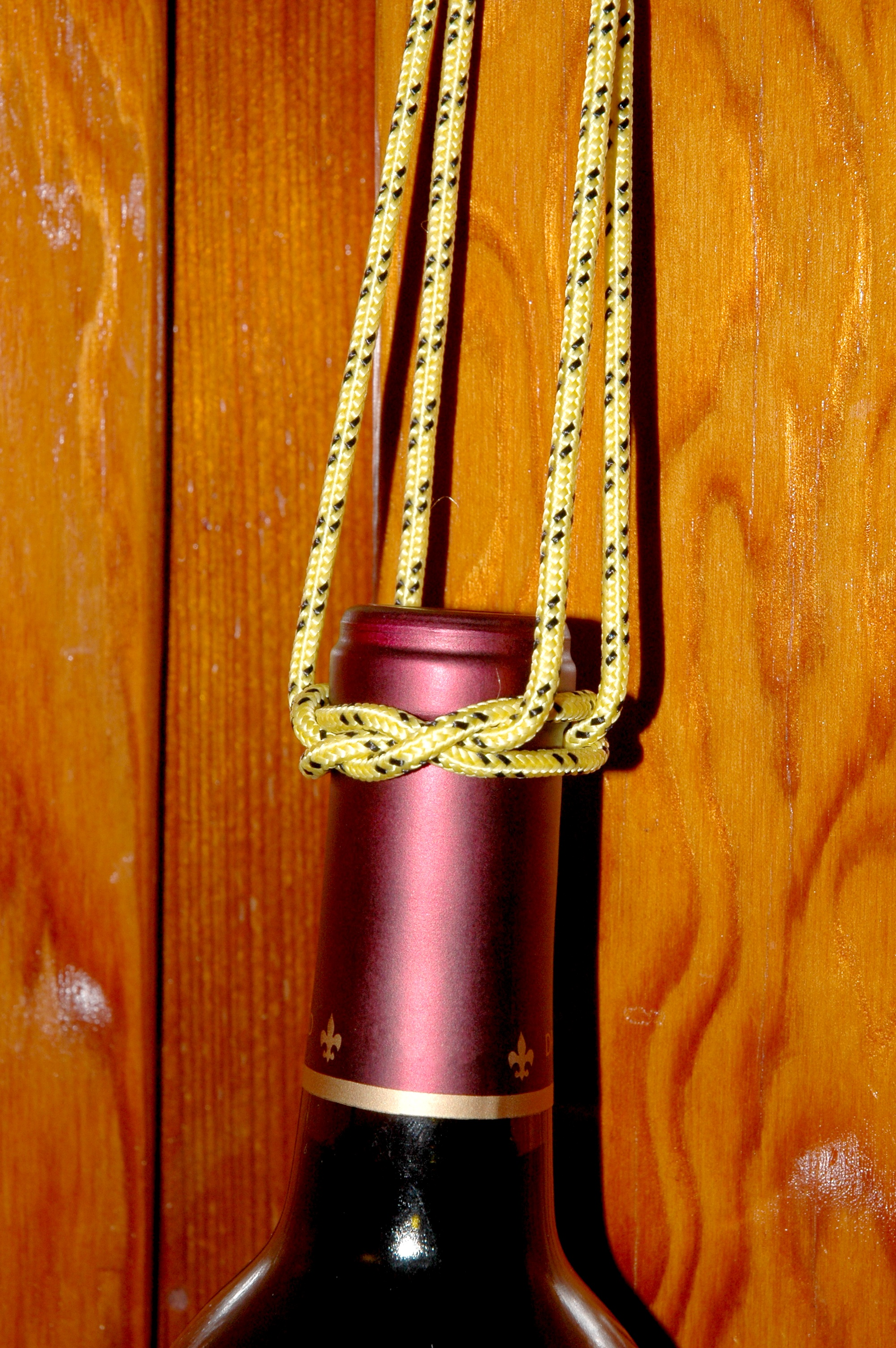 Wine bottle suspended using a Bottle sling (ABOK #1142), aka Jug sling. NOTE: The vintner's name was removed from the bottle's capsule using the GIMP's clone tool to avoid product placement issues.